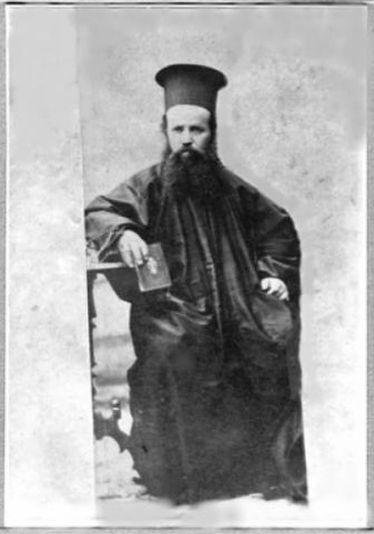 portrait